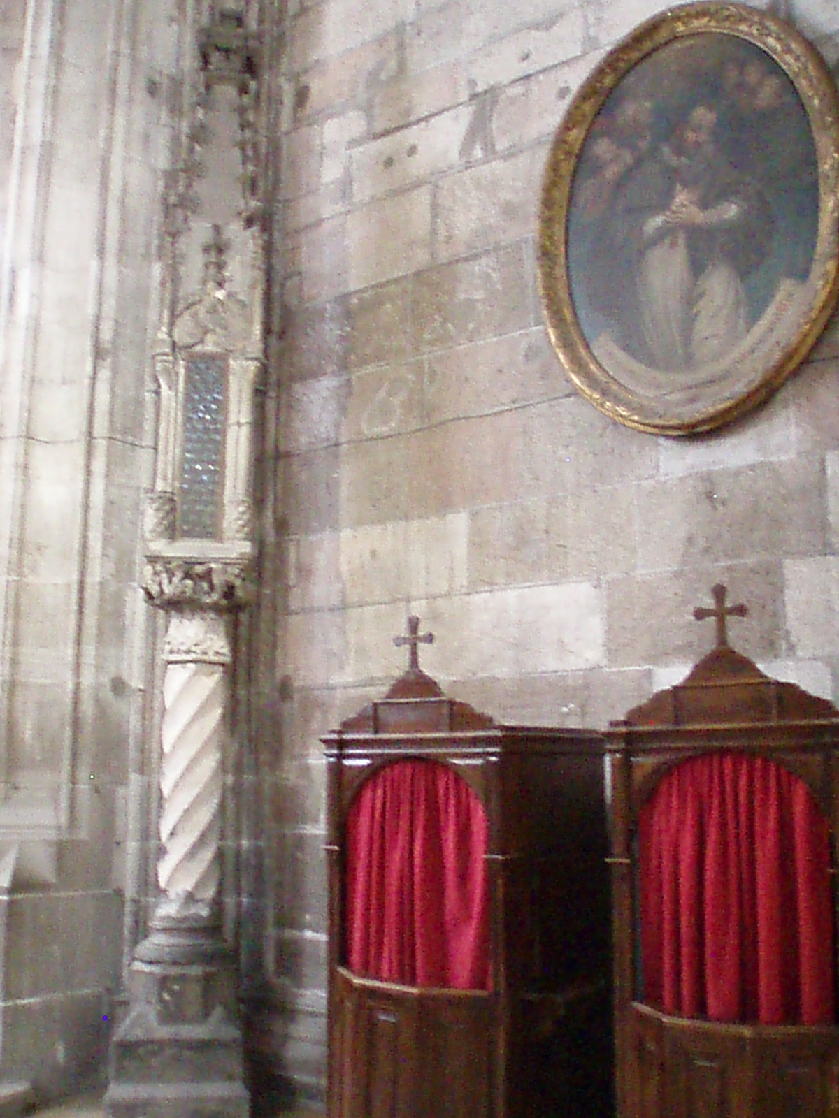 Lantern of King Matthias Korvinus